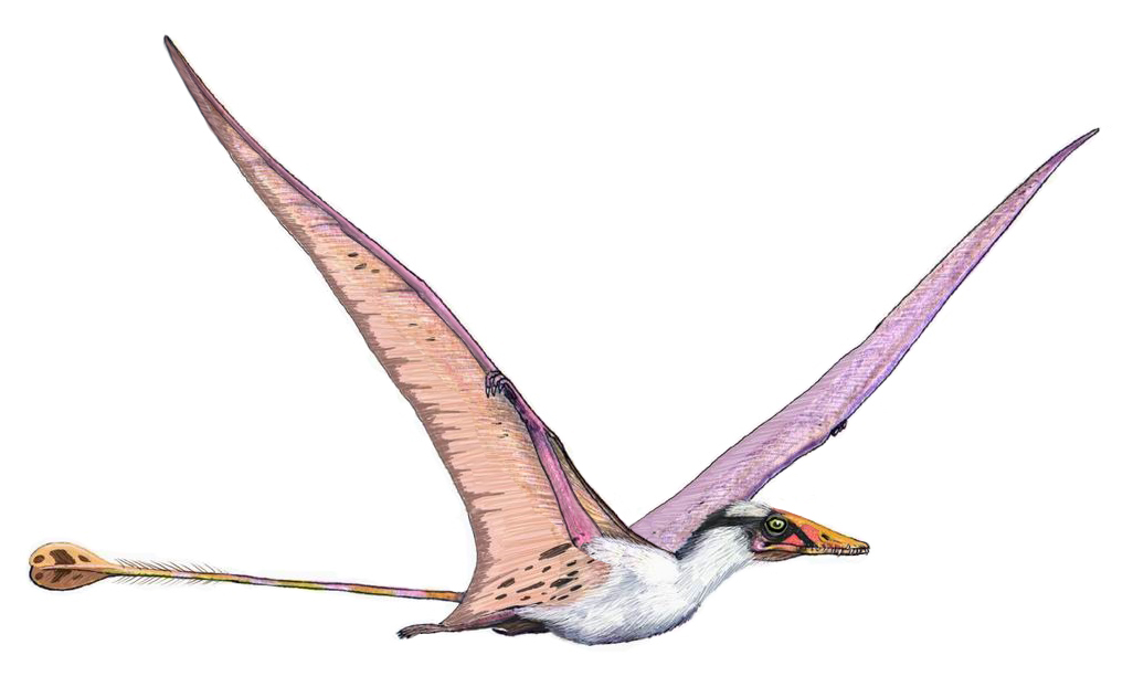 Campylognathoides. Restoration of Campylognathoides with a hypothetical tail form.